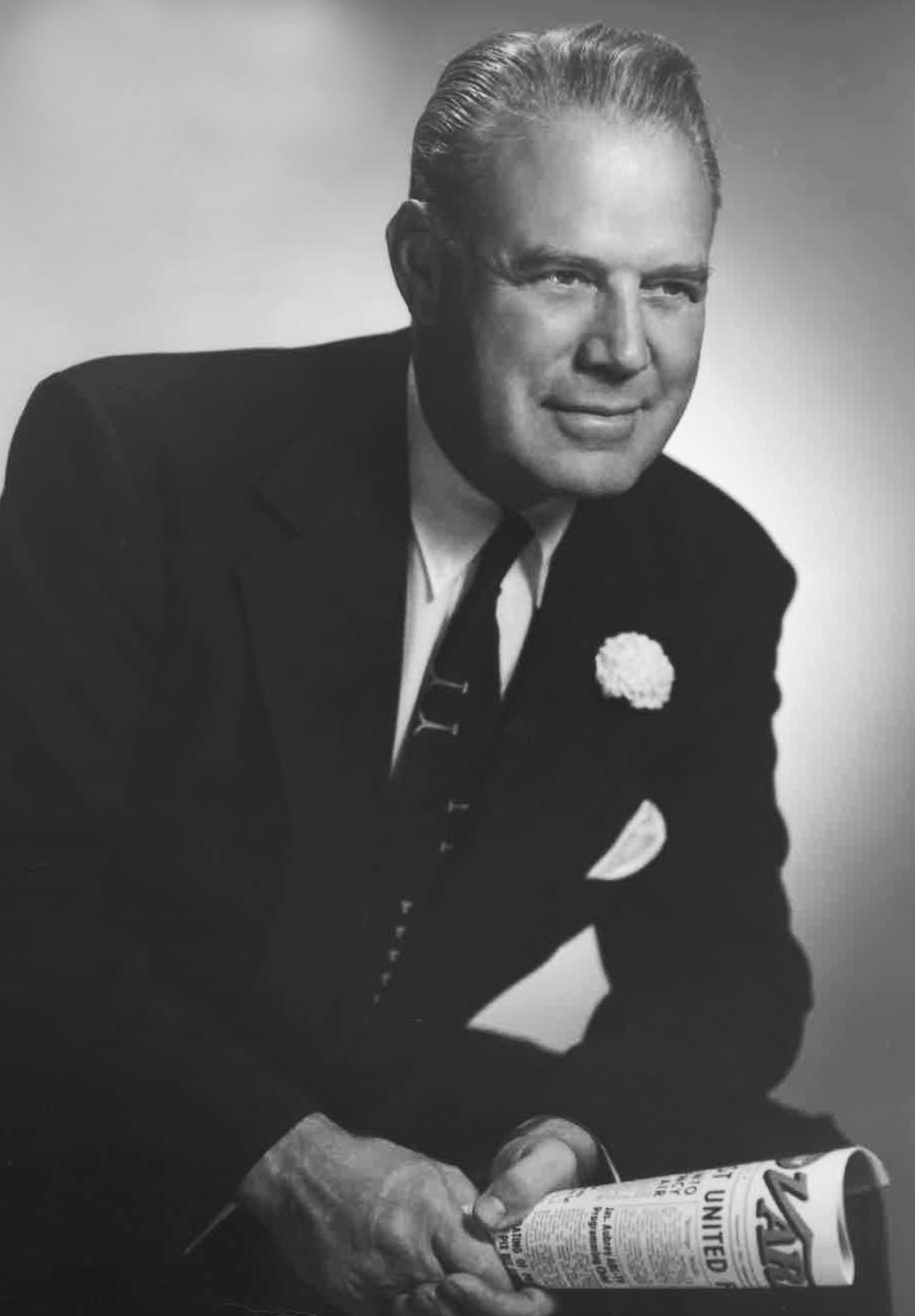 Horace Heidt